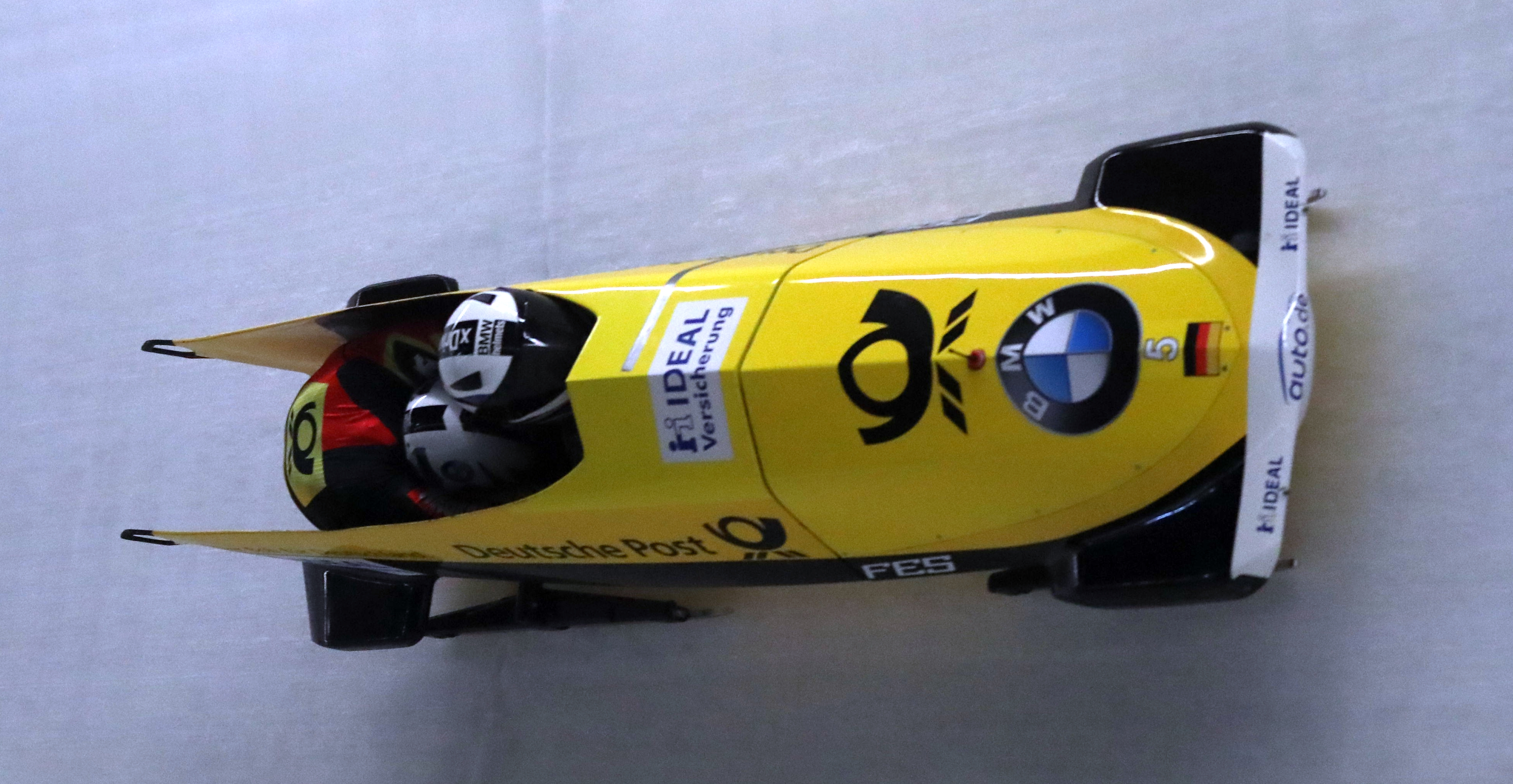 2-man Bobsleigh Men's World Cup race at the 2018/19 Bobsleigh World Cup in Altenberg